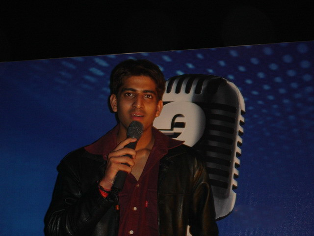 Sandeep Acharya at a stage show in Ahmedabad, Gujarat, India